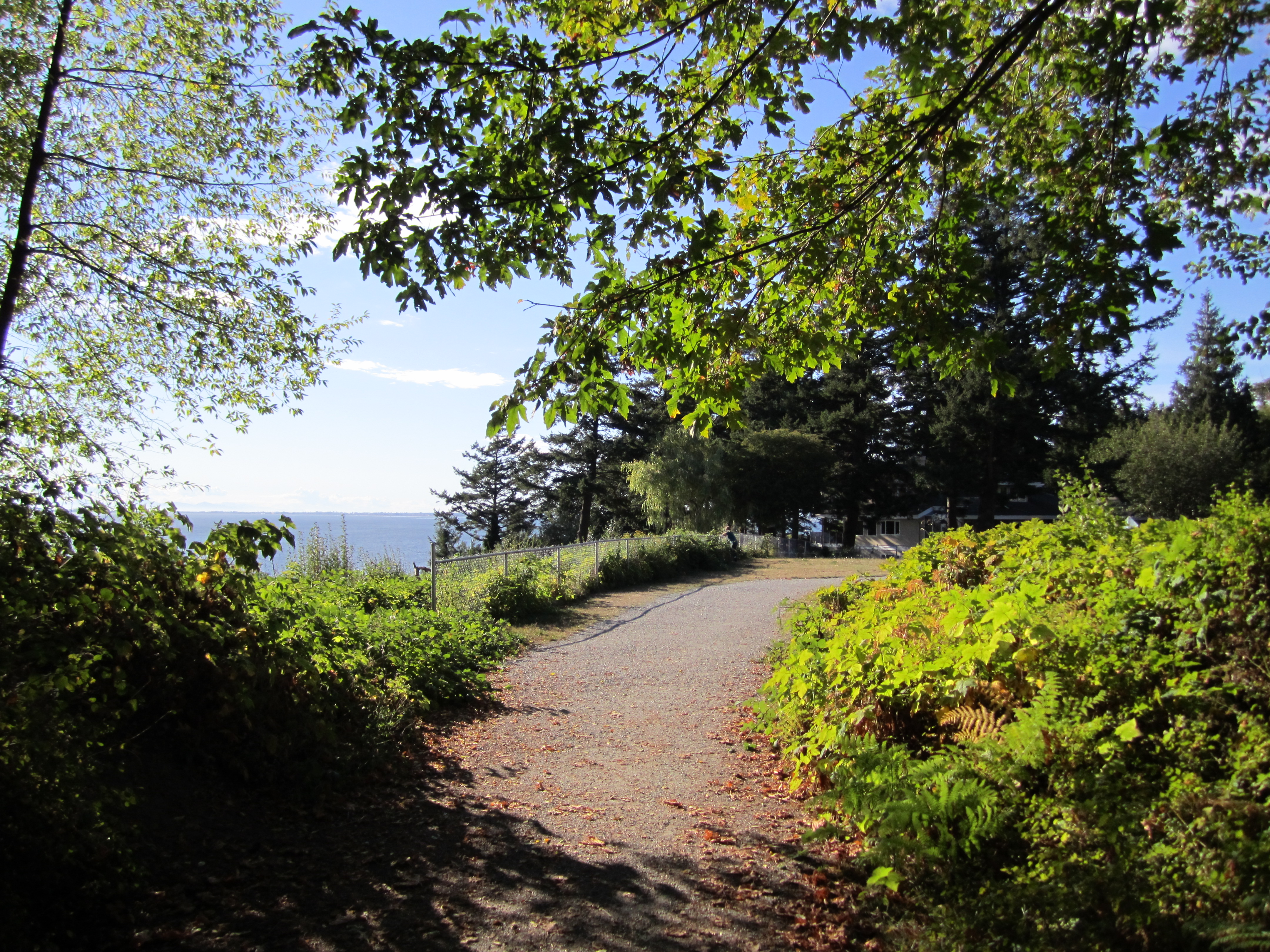 Camp Kwomais has now been made into a public park. It overlooks Semiahmoo Bay from the edge of Ocean Park.